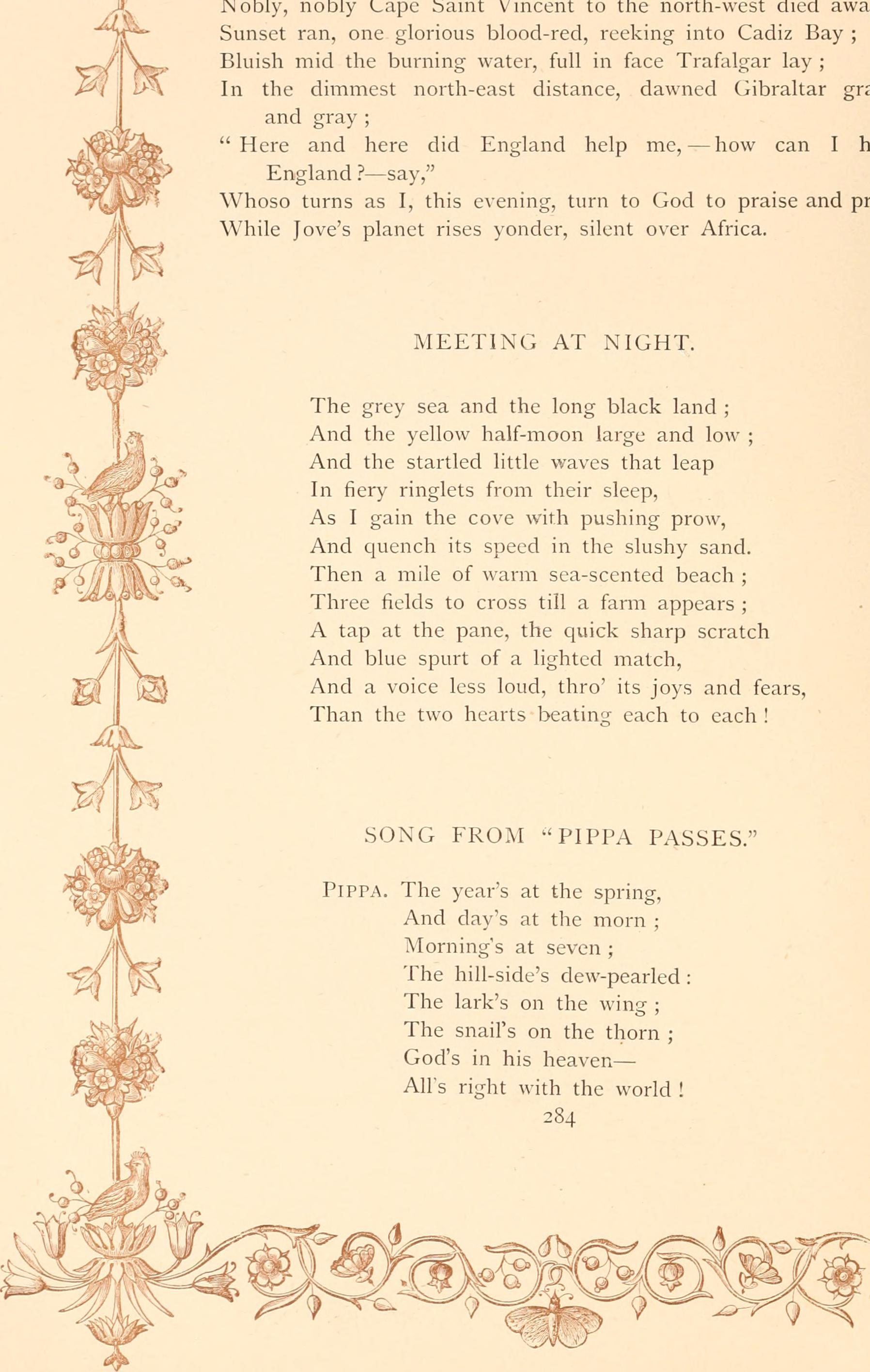 Title: Two centuries of song : or, Lyrics, madrigals, sonnets, and other occasional verses of the English poets of the last two hundred years Year: 1867 (1860s) Authors: Thornbury, Walter, 1828-1876 Subjects: English poetry Publisher: London : Sampson, Low, Son and Marston Text Appearing Before Image: HOME THOUGHTS, FROM THE SEA. Nobly, nobly Cape Saint Vincent to the north-west died away ;Sunset ran, one glorious blood-red, reeking into Cadiz Bay ;Bluish mid the burning water, full in face Trafalgar lay ;In the dimmest north-east distance, dawned Gibraltar grand and gray ;Here and here did England help me, — how can I help England ?—say,Whoso turns as I, this evening, turn to God to praise and pray,While Joves planet rises yonder, silent over Africa. MEETING AT NIGHT. The grey sea and the long black land ;And the yellow half-moon large and low ;And the startled little waves that leapIn fiery ringlets from their sleep.As I gain the cove with pushing prow,And quench its speed in the slushy sand.Then a mile of warm sea-scented beach ;Three fields to cross till a farm appears ;A tap at the pane, the quick sharp scratchAnd blue spurt of a lighted match.And a voice less loud, thro its joys and fears,Than the two hearts beating each to each ! Text Appearing After Image: rS P SONG FROM PIPPA PASSES. PiPPA. The years at the spring,And days at the morn ;Morning s at seven ;The hill-sides dew-pearled :The larks on the wing- :The snails on the thorn ;Gods in his heaven—Alls right with the world !284